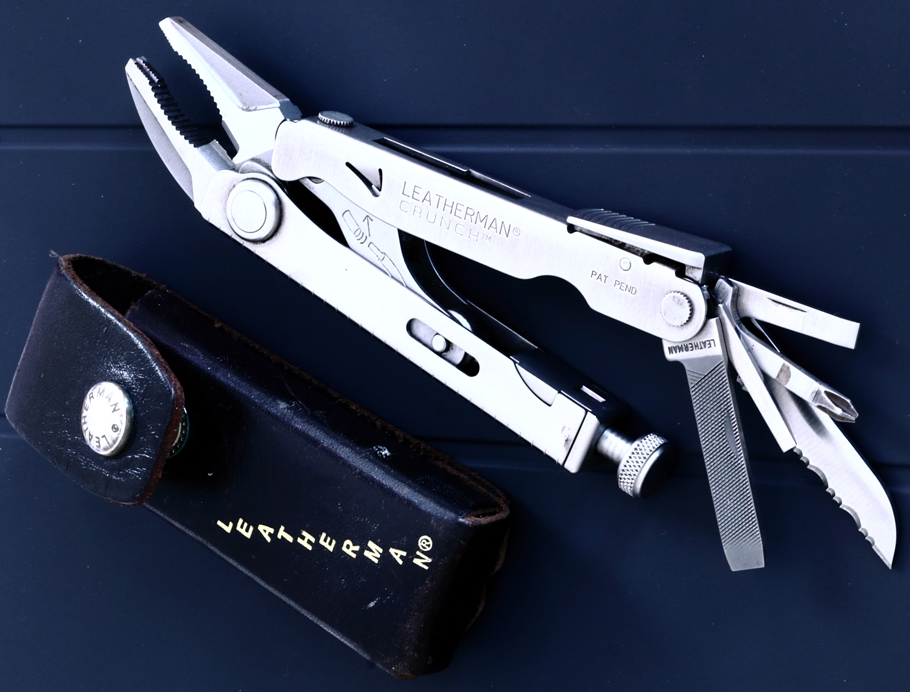 Leatherman Crunch with case, all tools unfolded.